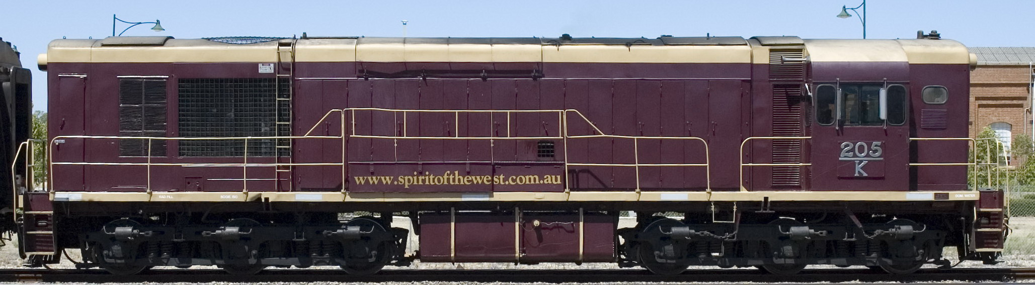 Spirit of the West K205 - Midland, Western Australia.